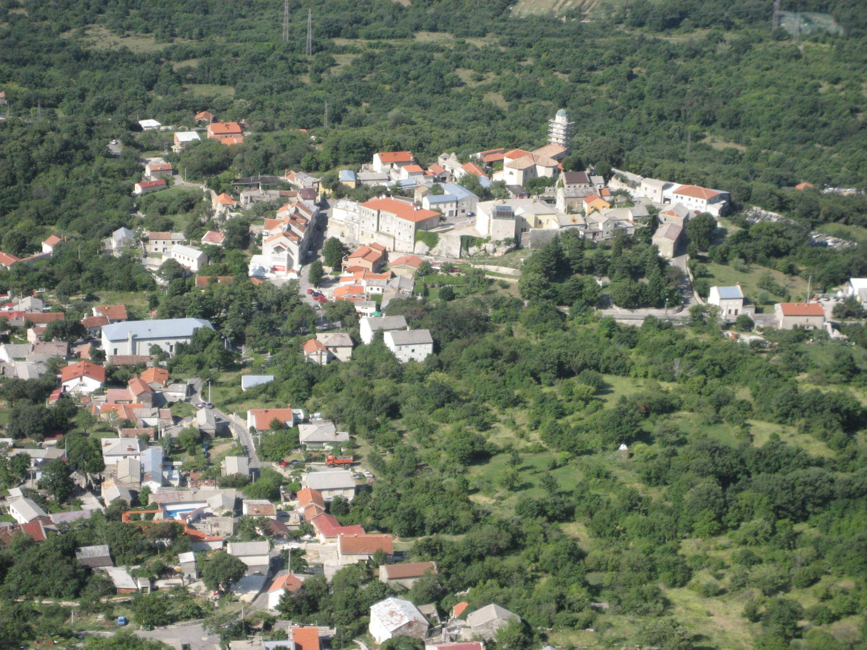 Bribir, Village in Croatia